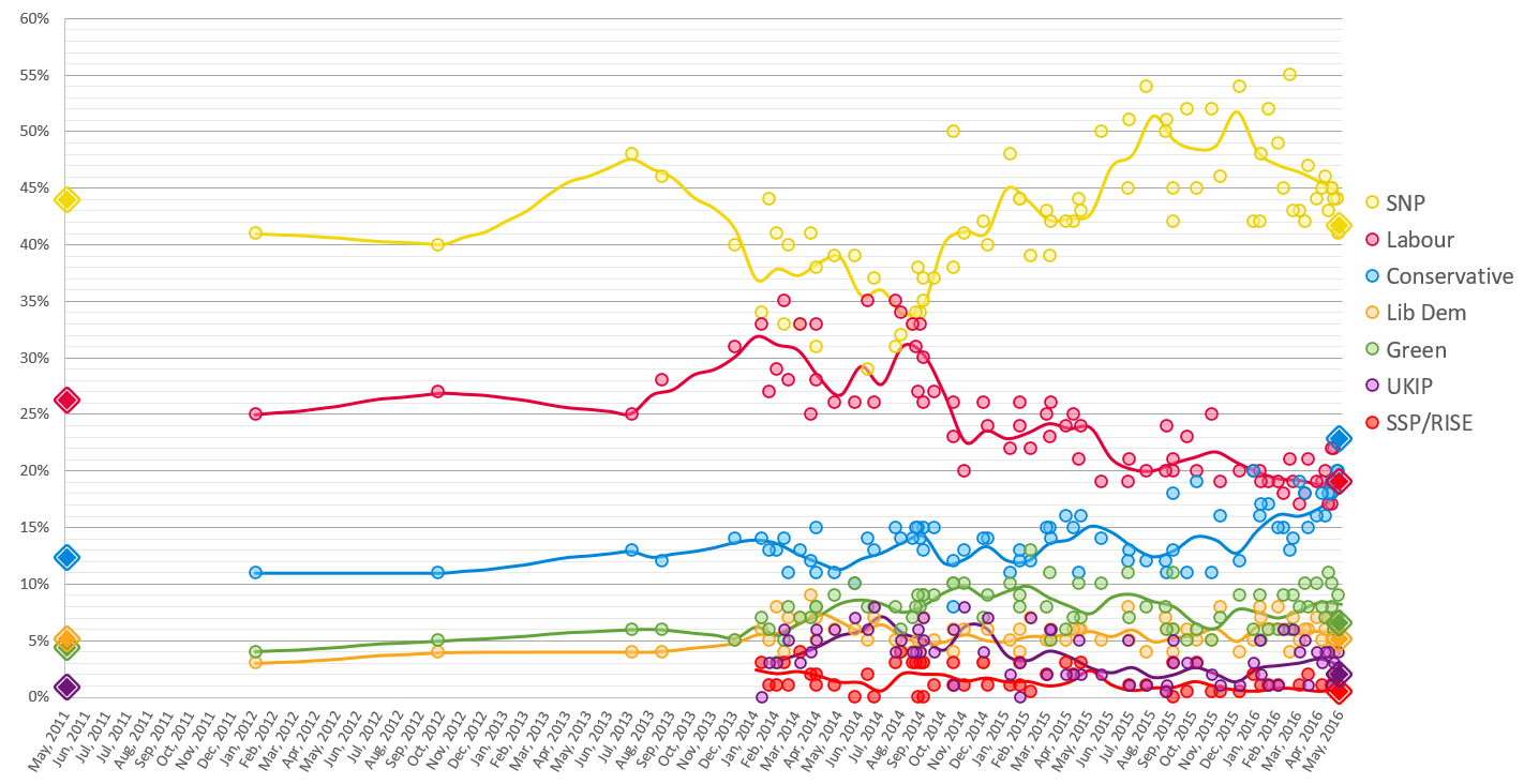 Opinion polling for the 2016 Scottish Parliament election (regional vote) with average 30 day trendline.